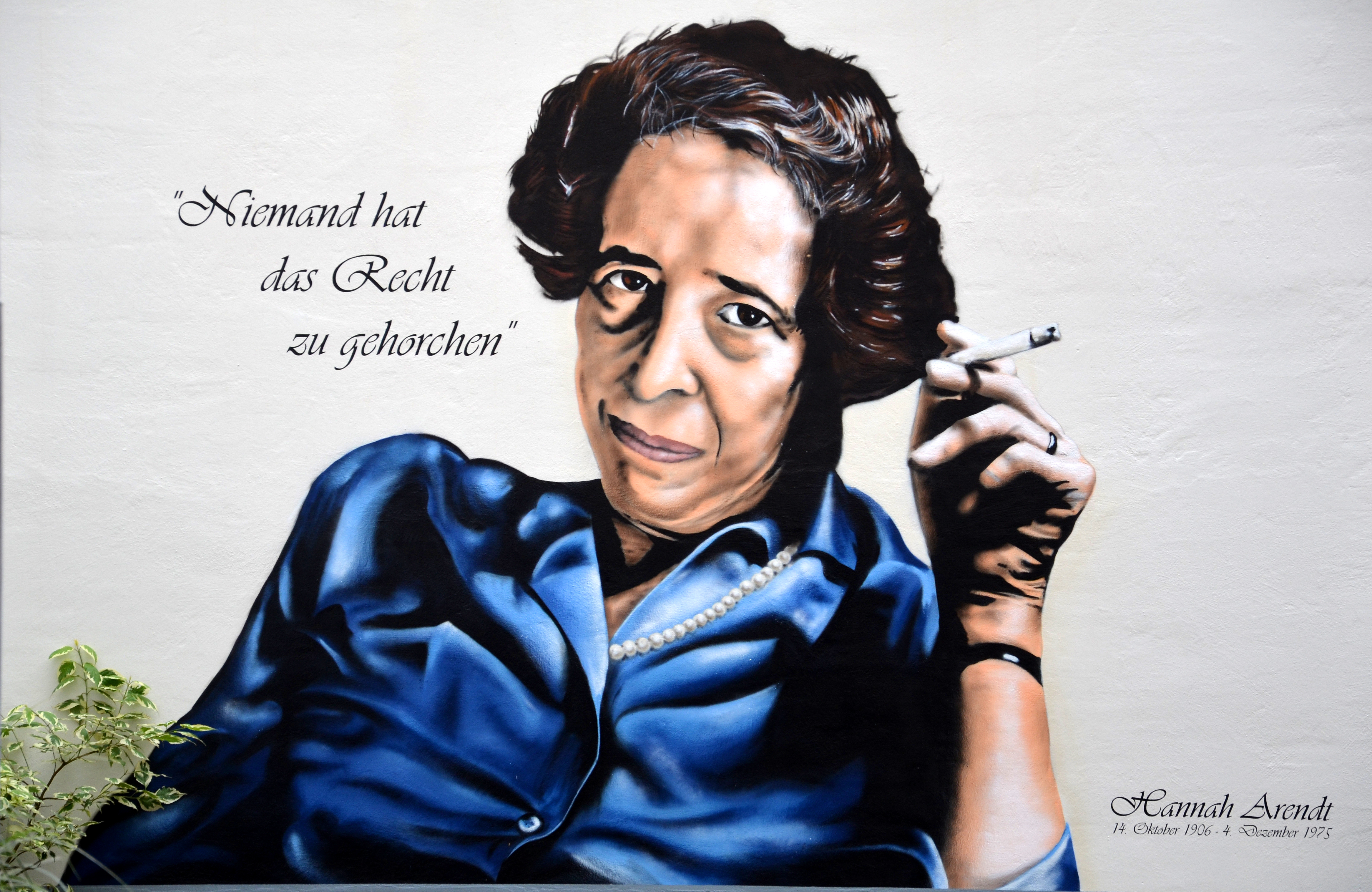 Portrait of the German-Jewish historian and political philosopher Hannah Arendt on a wall in the courtyard of her birthplace at Lindener Marktplatz 2, on the corner of Falkenstraße, in the district of Linden-Mitte. The picture was reproduced from a photograph by Käthe Fürst (Ramat Ha Sharon, Israel) and shows the famous portrait of the philosopher with a cigarette and her famous saying "Nobody has the right to obey". The artwork is a commissioned work by the Hanoverian graffiti artist Patrik Wolters aka BeneR1 in August 2014 in teamwork with Kevin Lasner aka koarts ...